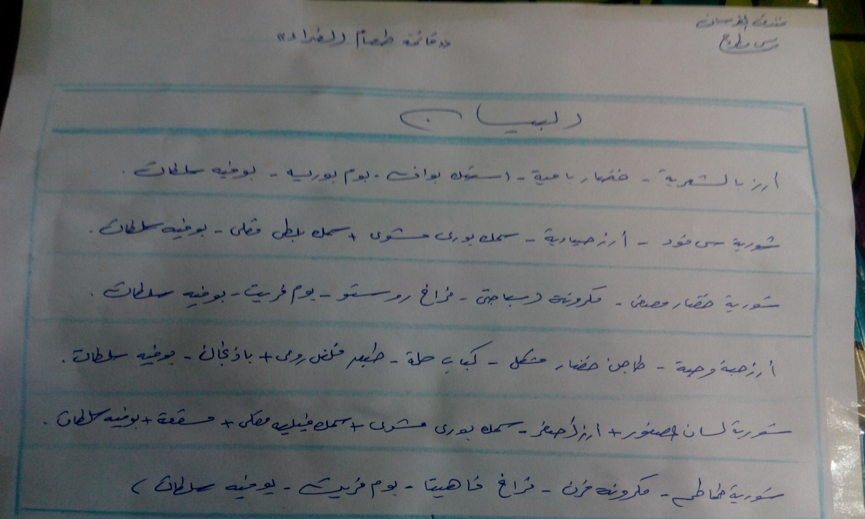 Al Forsan Hotel